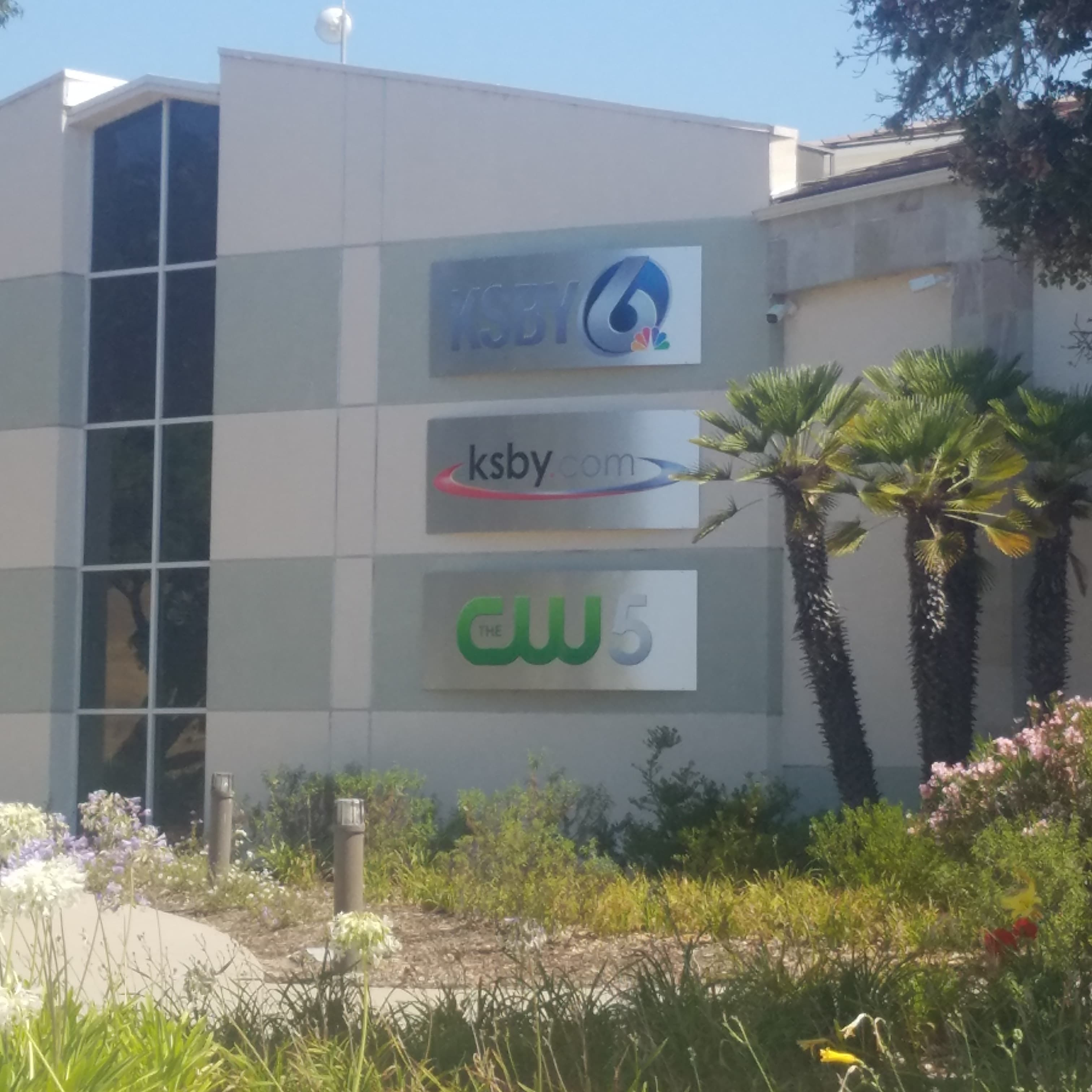 To indicate the station's location and address